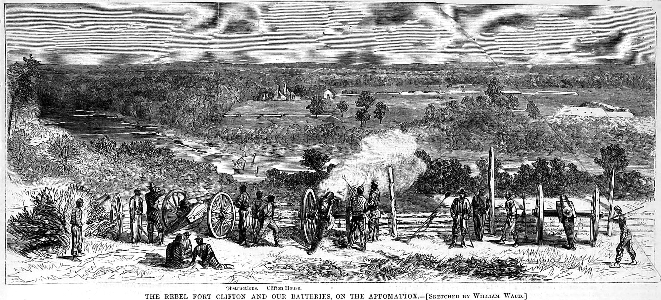 View of Fort Clifton in Chesterfield County, Virginia on the Appomattox River from a Union Battery. (image cropped and cleaned)